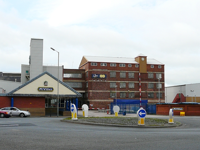 McVities factory, Caldewgate Biscuit factory originally owned by Carrs, makers of the famous "Table Water Biscuits". A major employer in Carlisle.